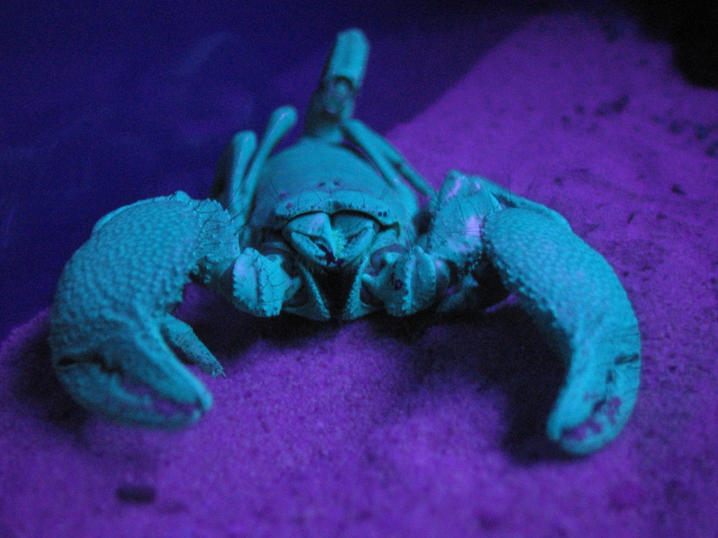 Photograph taken by Jonbeebe 06:41, 27 January 2007 (UTC) This scorpion is black when viewed under normal lighting. Here it is seen illuminated by a blacklight